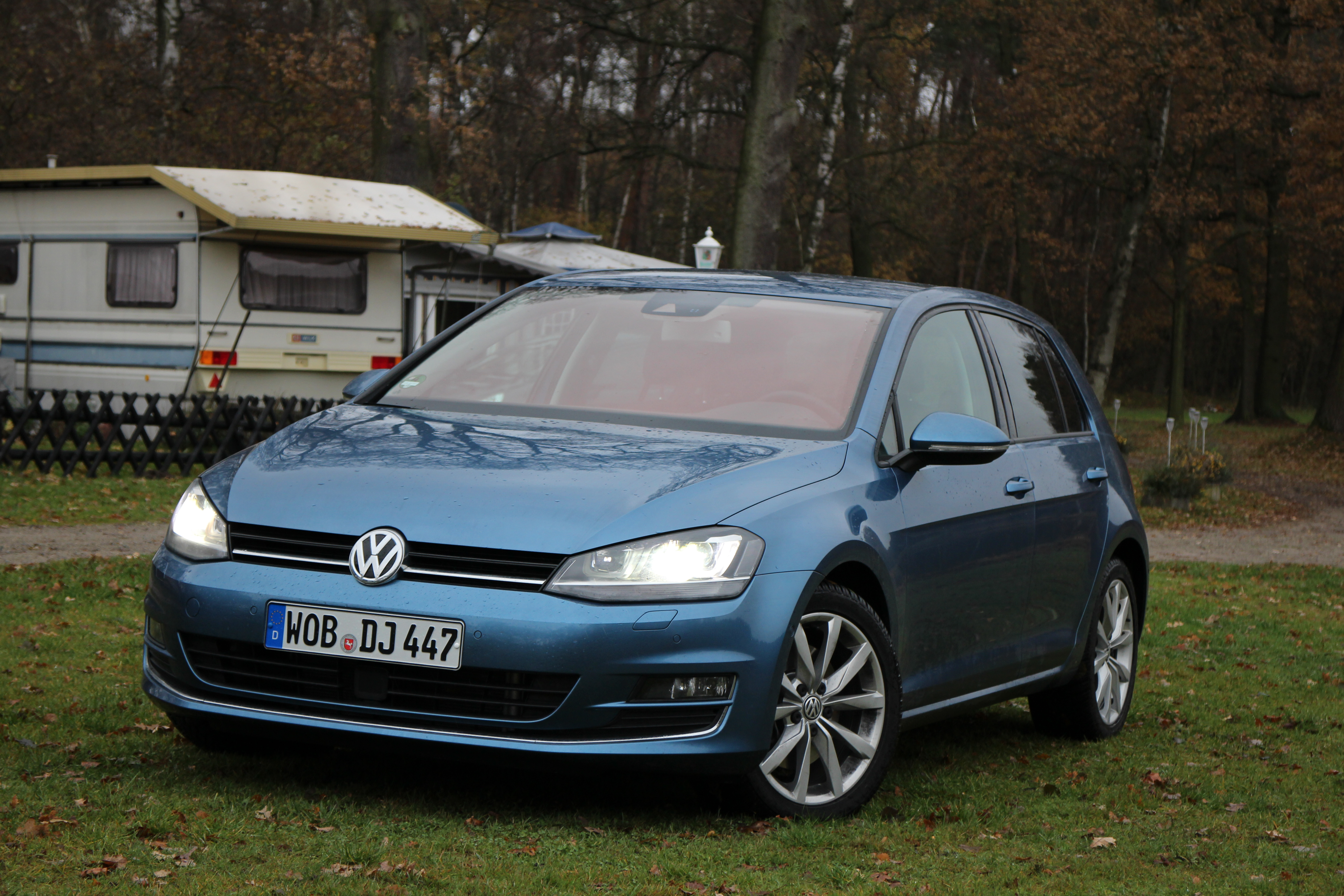 Golf Highline BlueMotion Technology 1,4 l TSI ACT 103 kW (140 PS) 6-Gang / Presse-Testwagen